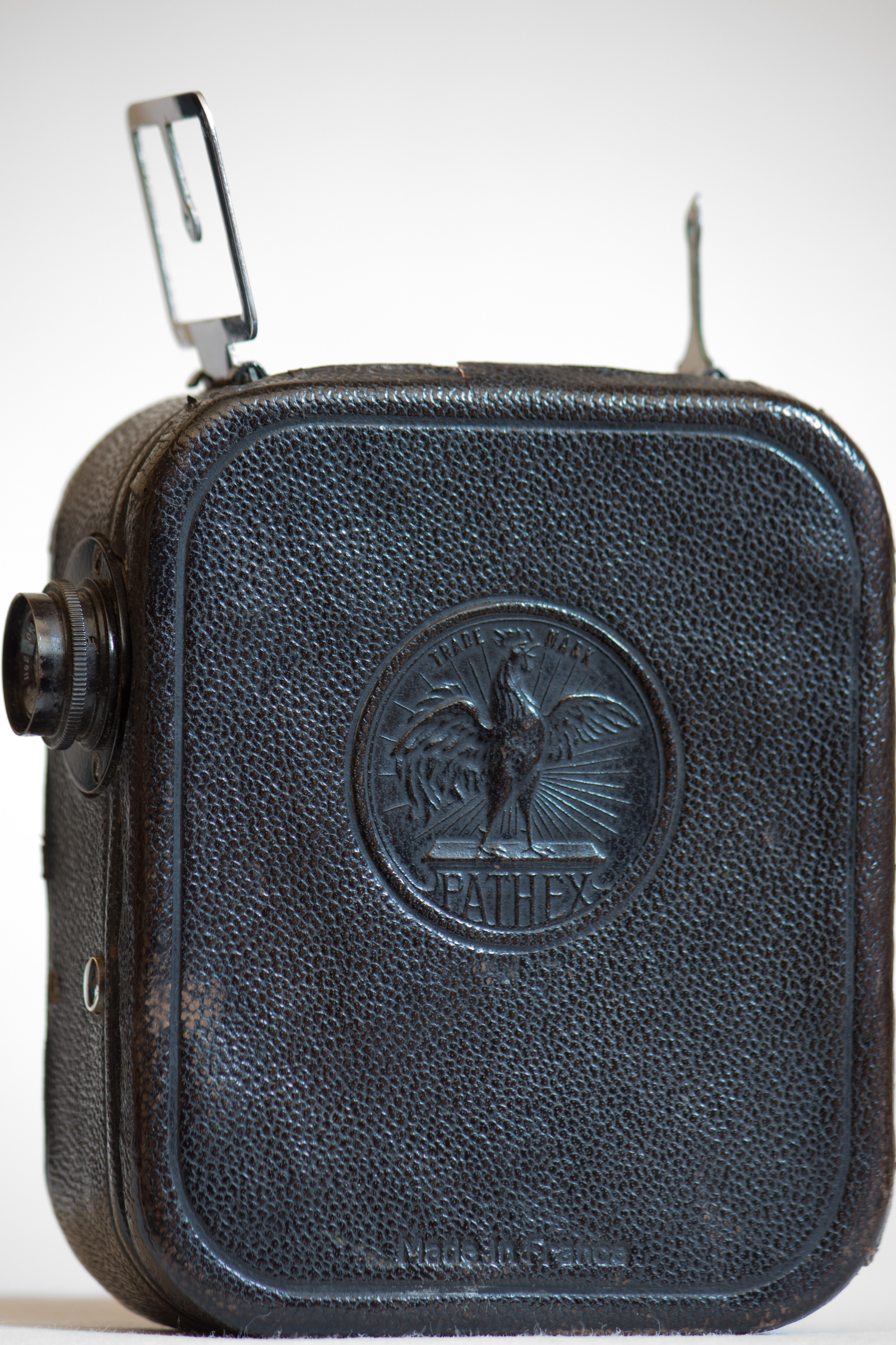 Pathé-Baby hand movie camera (left side), 9.5 mm film, 1923